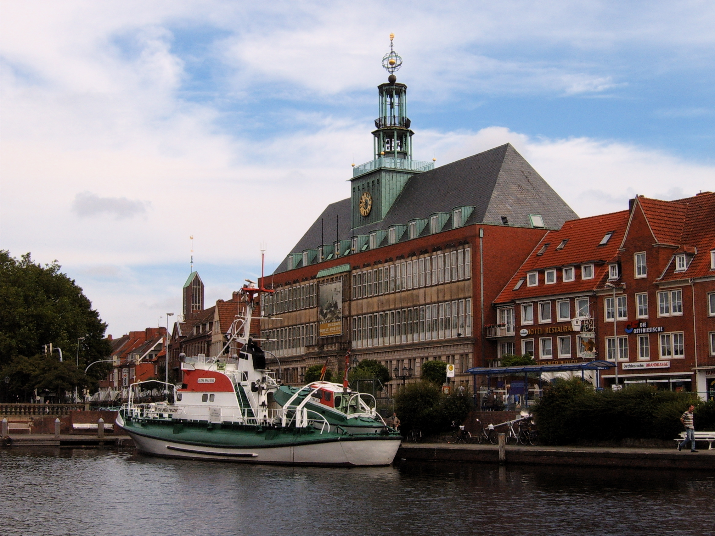 City hall of Emden (Germany). SAR boat "Georg Breusing" (1963), now museum ship.